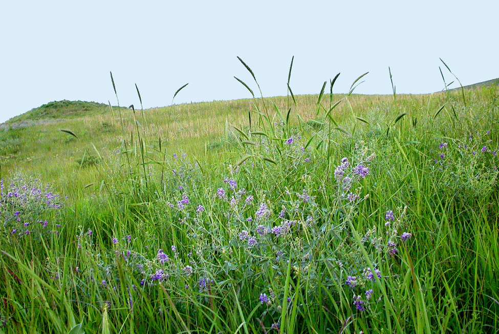 Konza Prairie Preserve, a tallgrass prairie in the Flint Hills, northeastern Kansas.